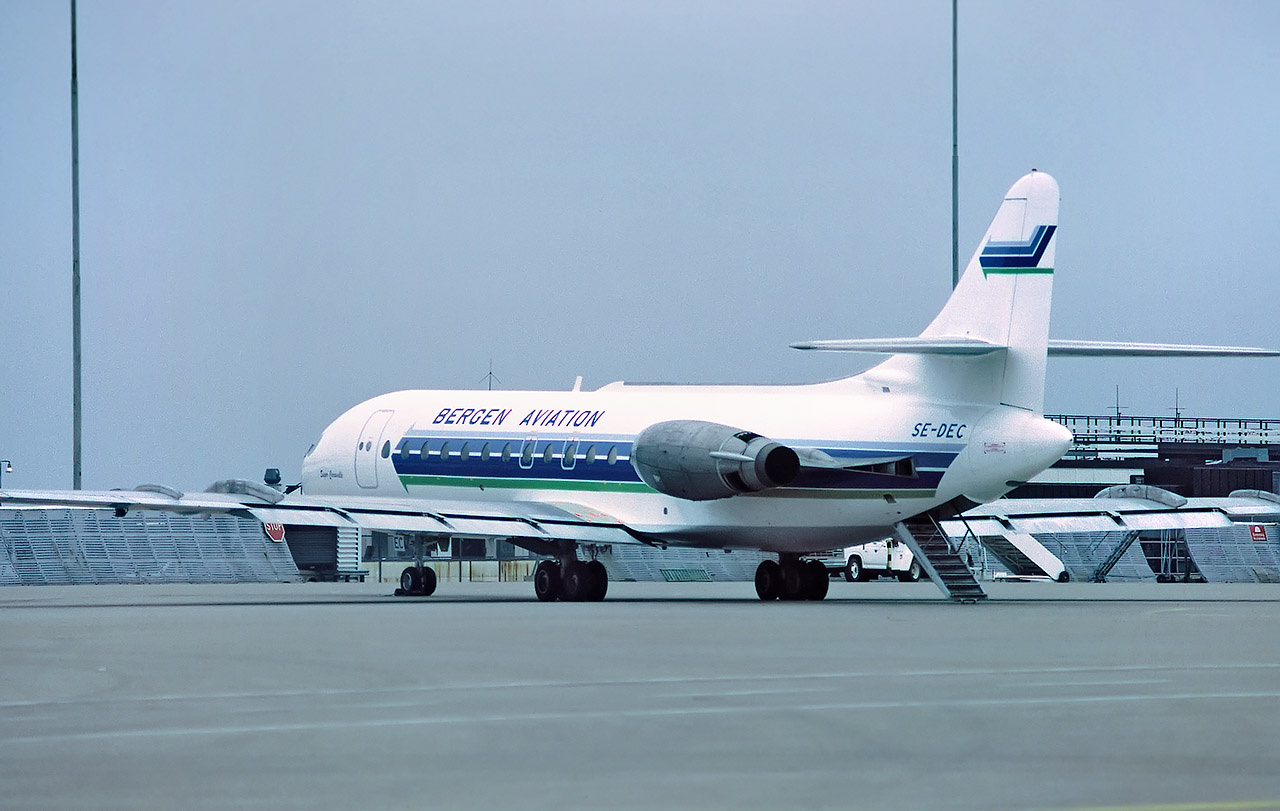 Bergen Aviation Aerospatiale SE-210 Caravelle 10B1R SE-DEC at Stockholm-Arlanda Airport